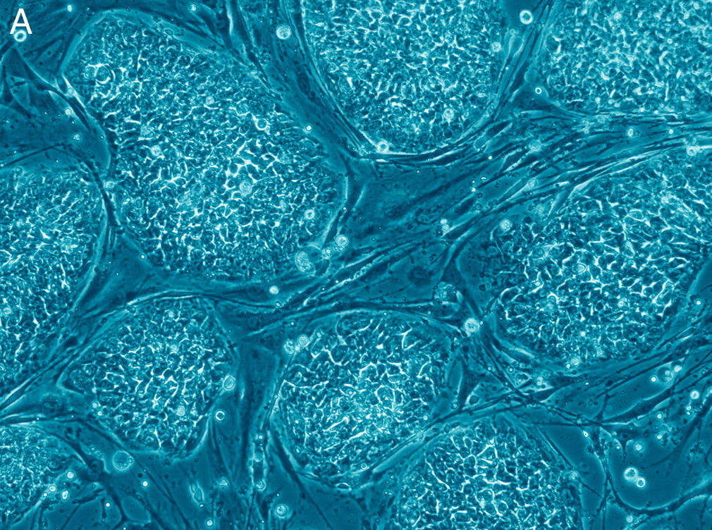 Embryonic Stem Cells. Image shows hESCs.